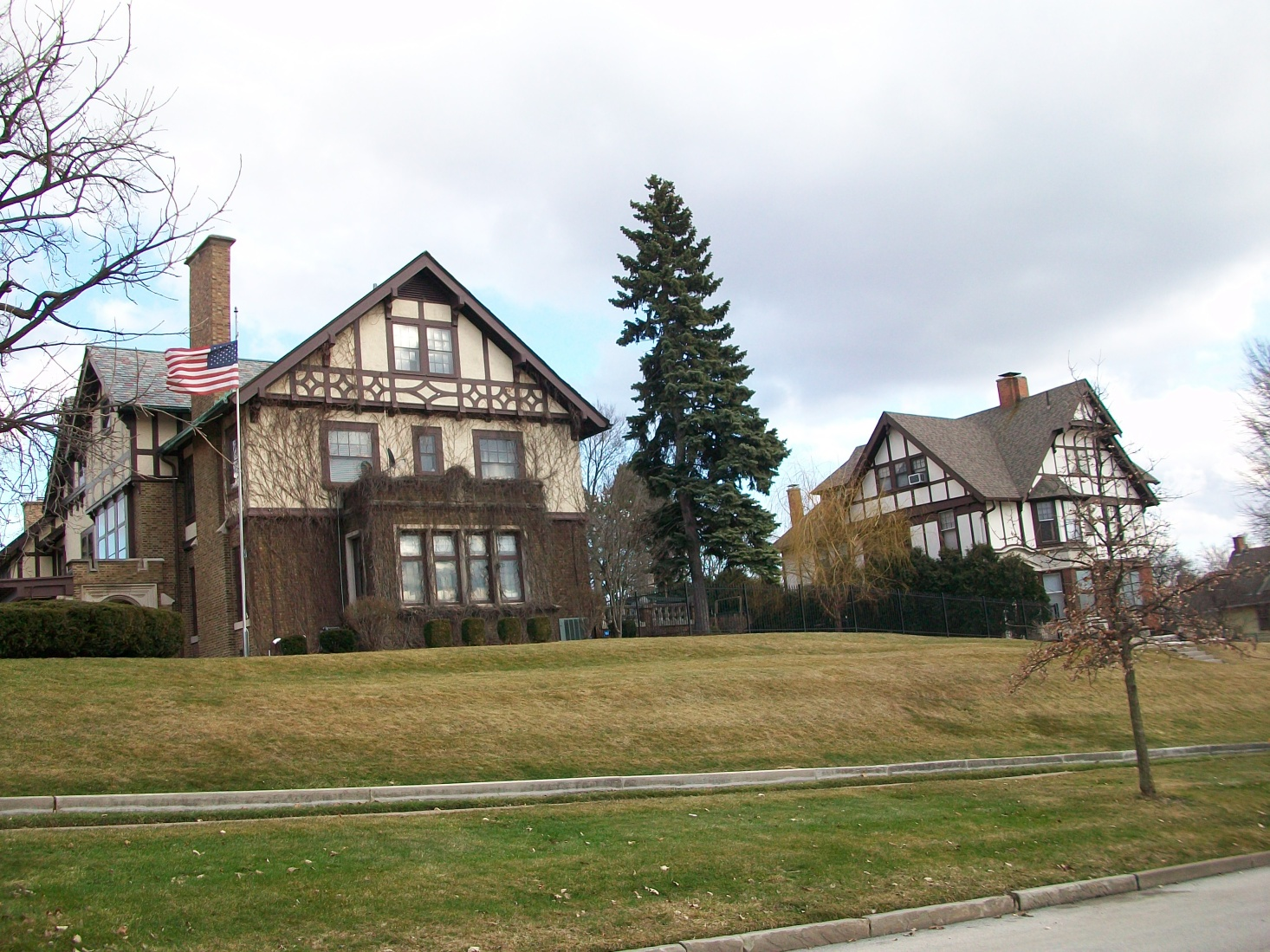 Prospect Park Historical Neighborhood in Davenport, Iowa